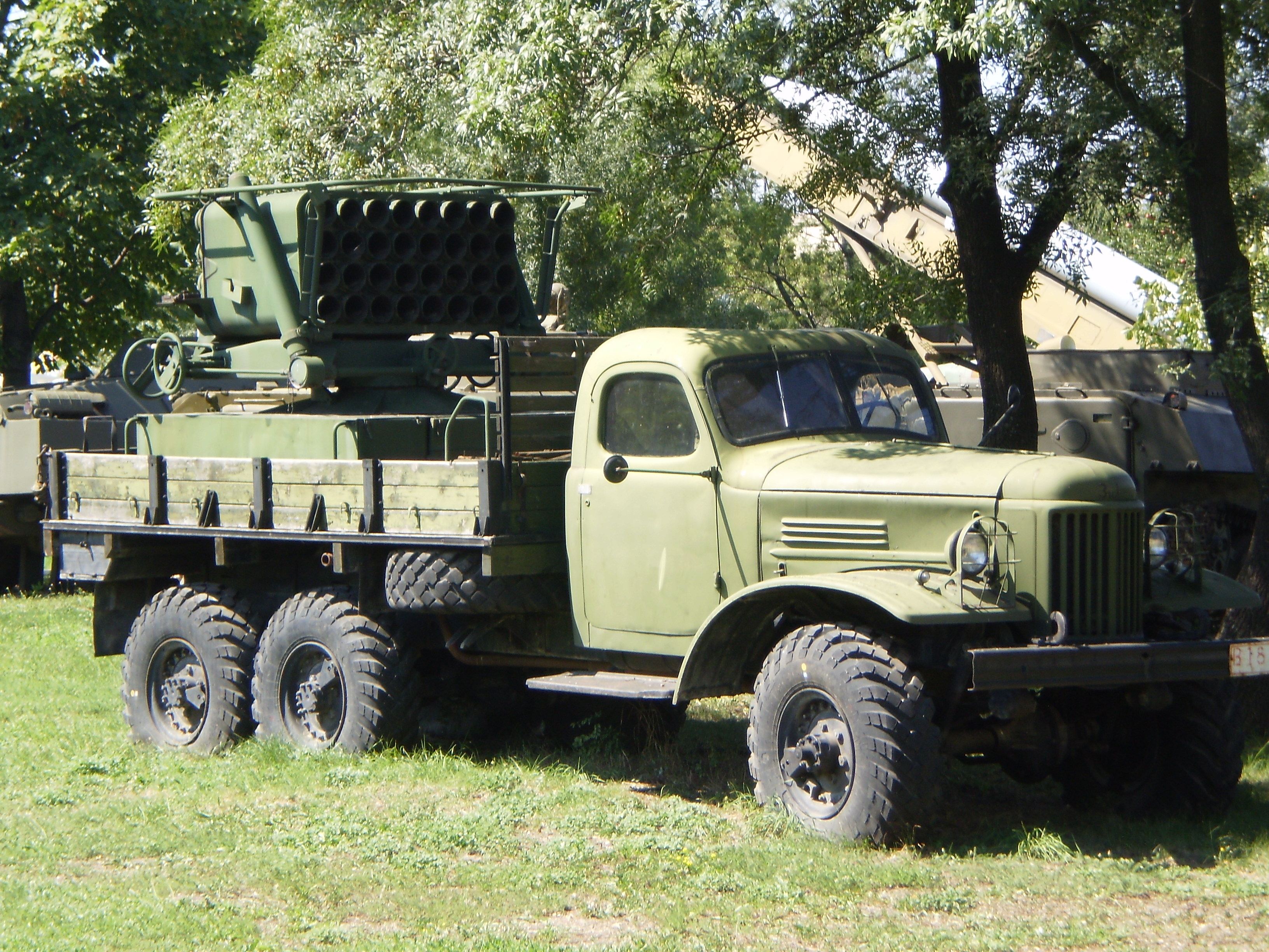 A Czechoslovak 130mm rocket launcher Raketomet vz. 51 (known as the M-51 or RM-51). In Czechoslovak service the launcher used a Praga 6x6 V3S truck, while export vehicles used the ZIS-151/ZIL-157 6x6 trucks. The M-51 rocket launcher was also used by Austria (on Styer 680 M3 chassis), Bulgaria, Cuba, Egypt, Yemen and Romania (it was known as R-2 in Romanian service).